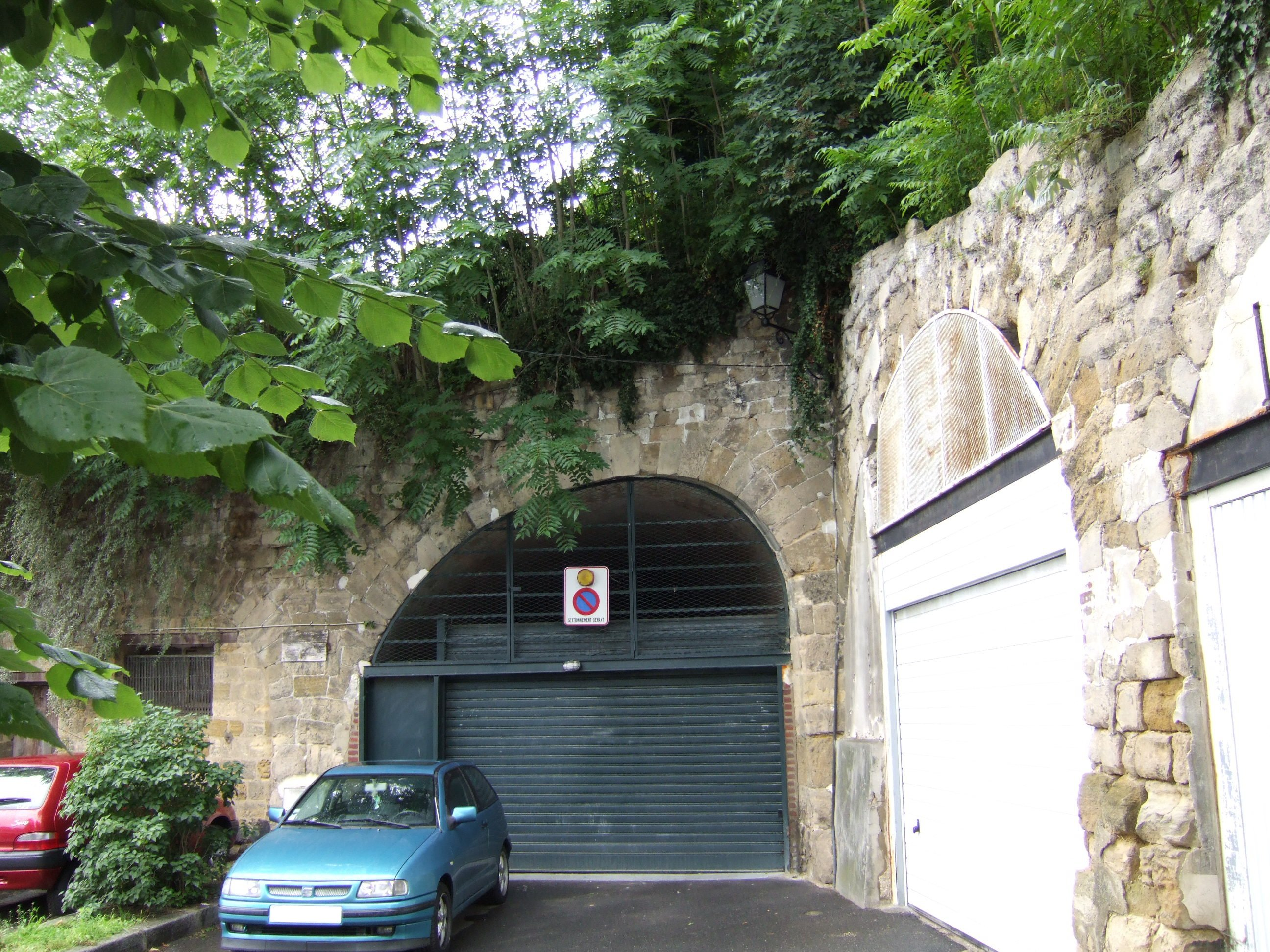 Rampant arch, near the parking of the sous-préfecture and near the entry of the public garden, rue de la Coutellerie, Pontoise, France.